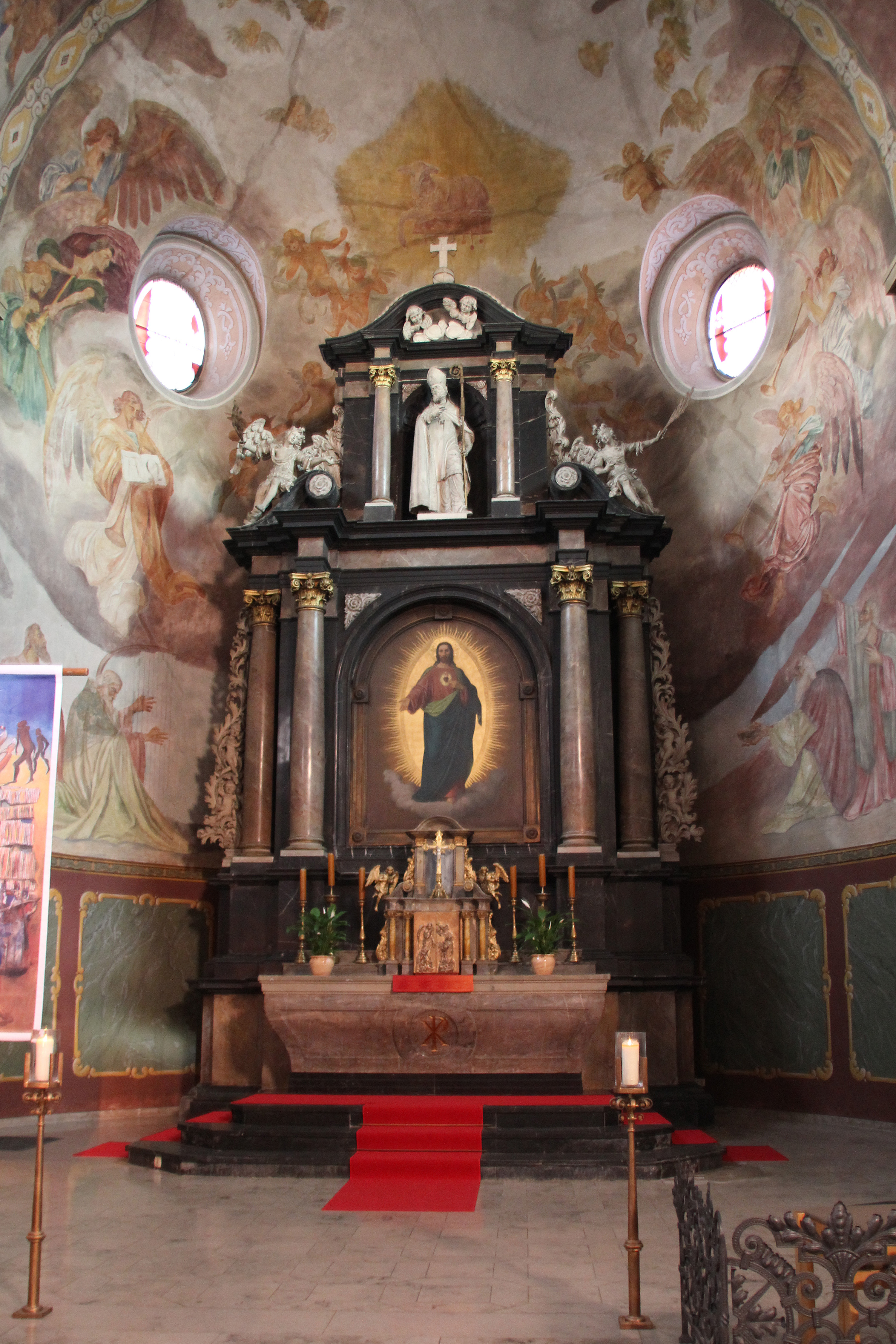 St. Maximin church in Koblenz